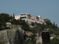 and Ioulita monastery in Sidirokastro, Serres, Greece